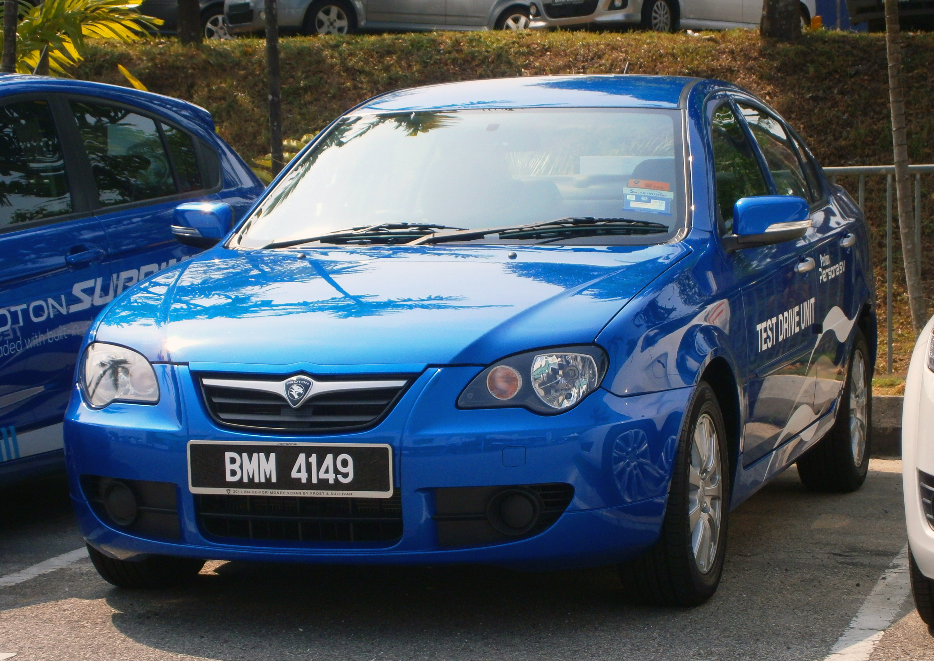 2014 Proton Persona SV (Test Drive Car) in Glenmarie, Malaysia. Colour : Atlantic Blue Designed & Assembled in Malaysia